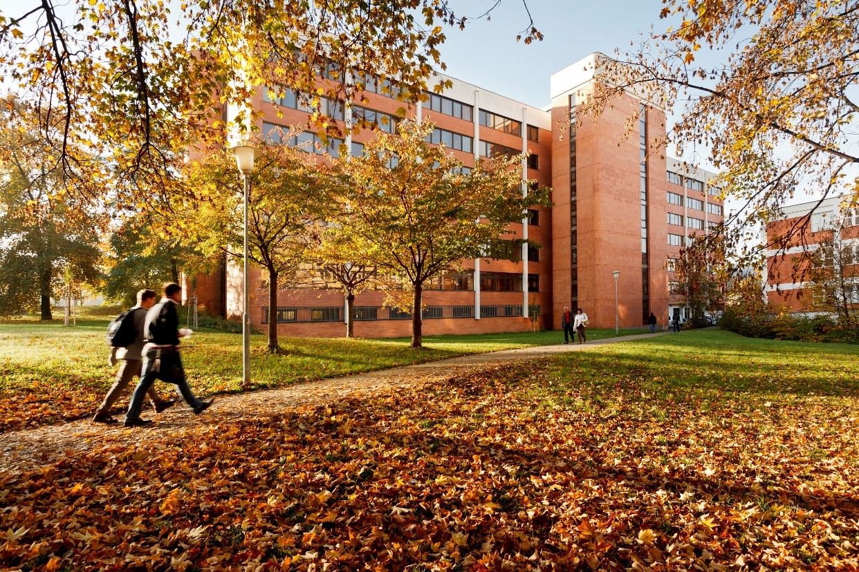 Picture of the FHS UTB in Zlin